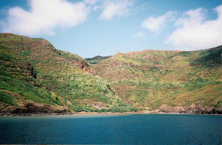 Eaio (Marquesas Island, French Polynesia) western coast